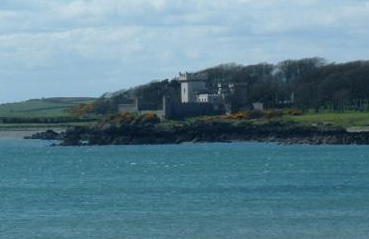 A crop of a geograph image of Quintin Castle, a castle situated in County Down, Northern Ireland, about 4km east of Portaferry. It is one of the very few occupied Anglo-Norman castles in Ireland.